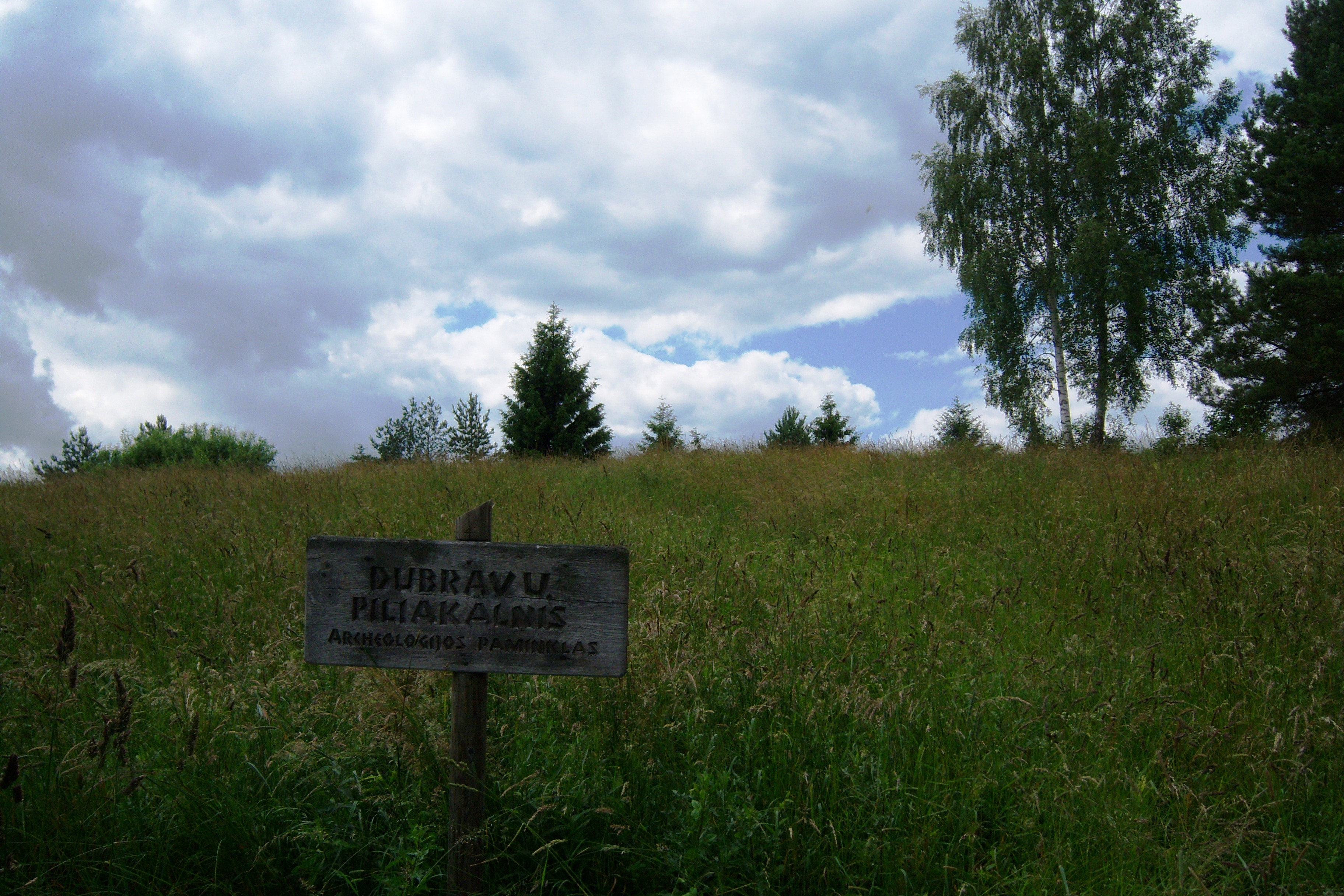 Dubravų hillfort by Dubravai, Kaunas district, Lithuania